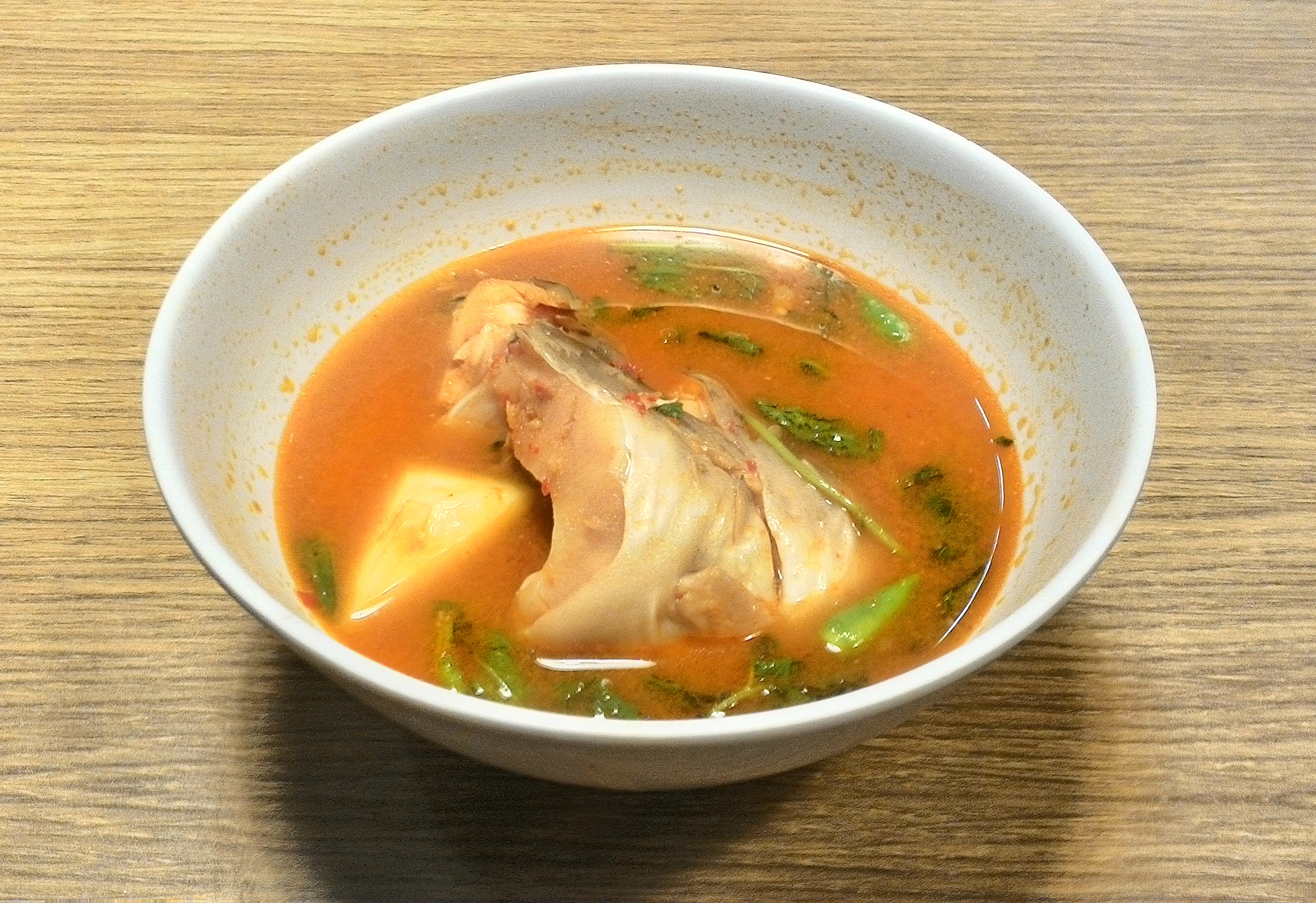 Pindang ikan patin (Pangasius fish) cooked in pindang sweet, spicy and sour soup. Specialty of Palembang, South Sumatra, Indonesia. Food Colony foodcourt, Atrium Senen, Central Jakarta.